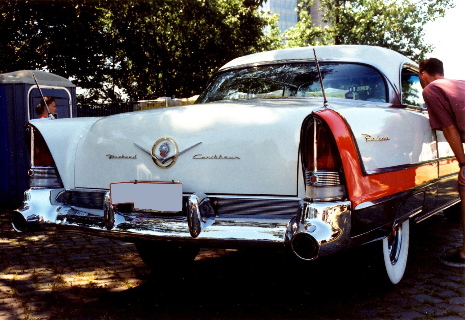 1956 Packard Caribbean Hardtop, 1 of 263, at car-show in Hamburg, Germany